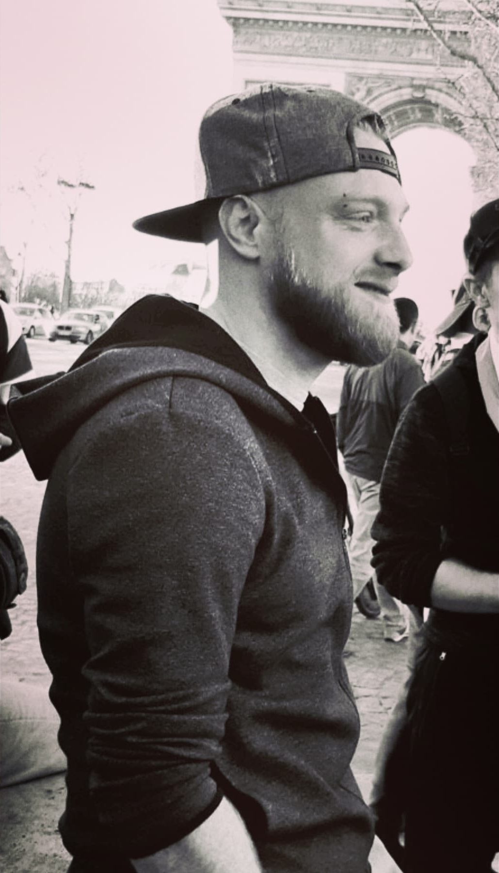 Maxime Nicolle